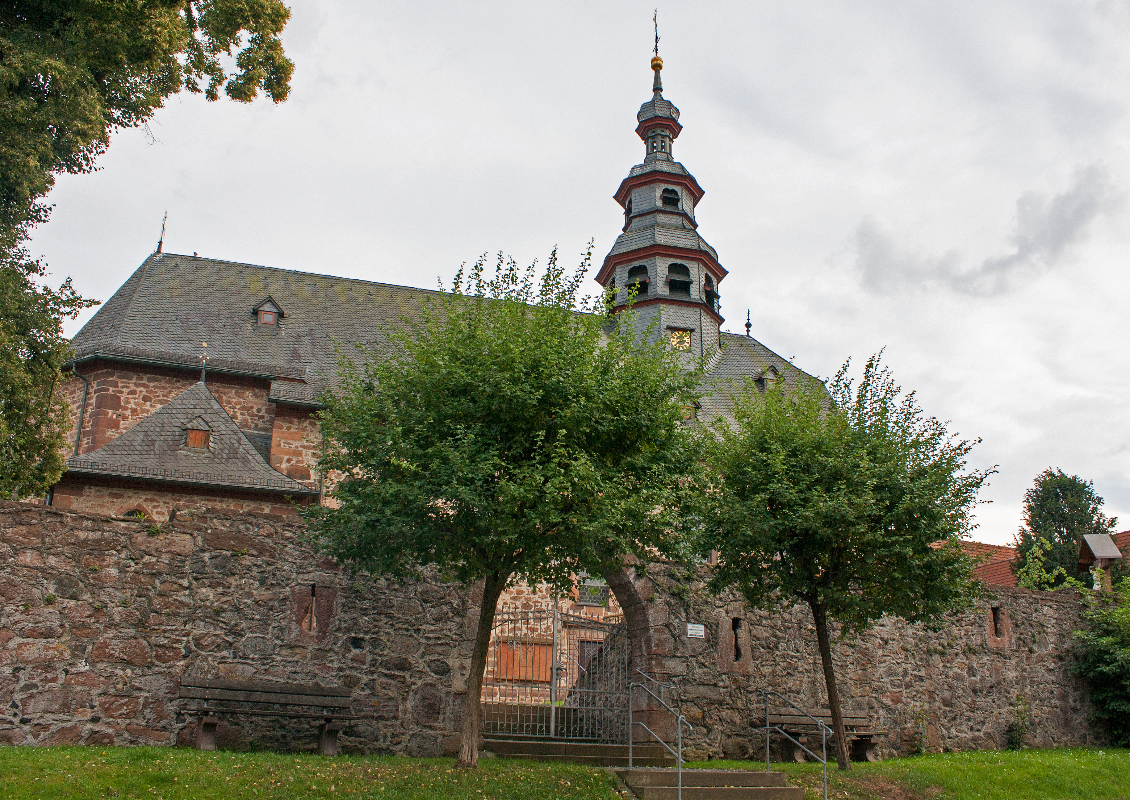 Church in Rossdorf, Amöneburg